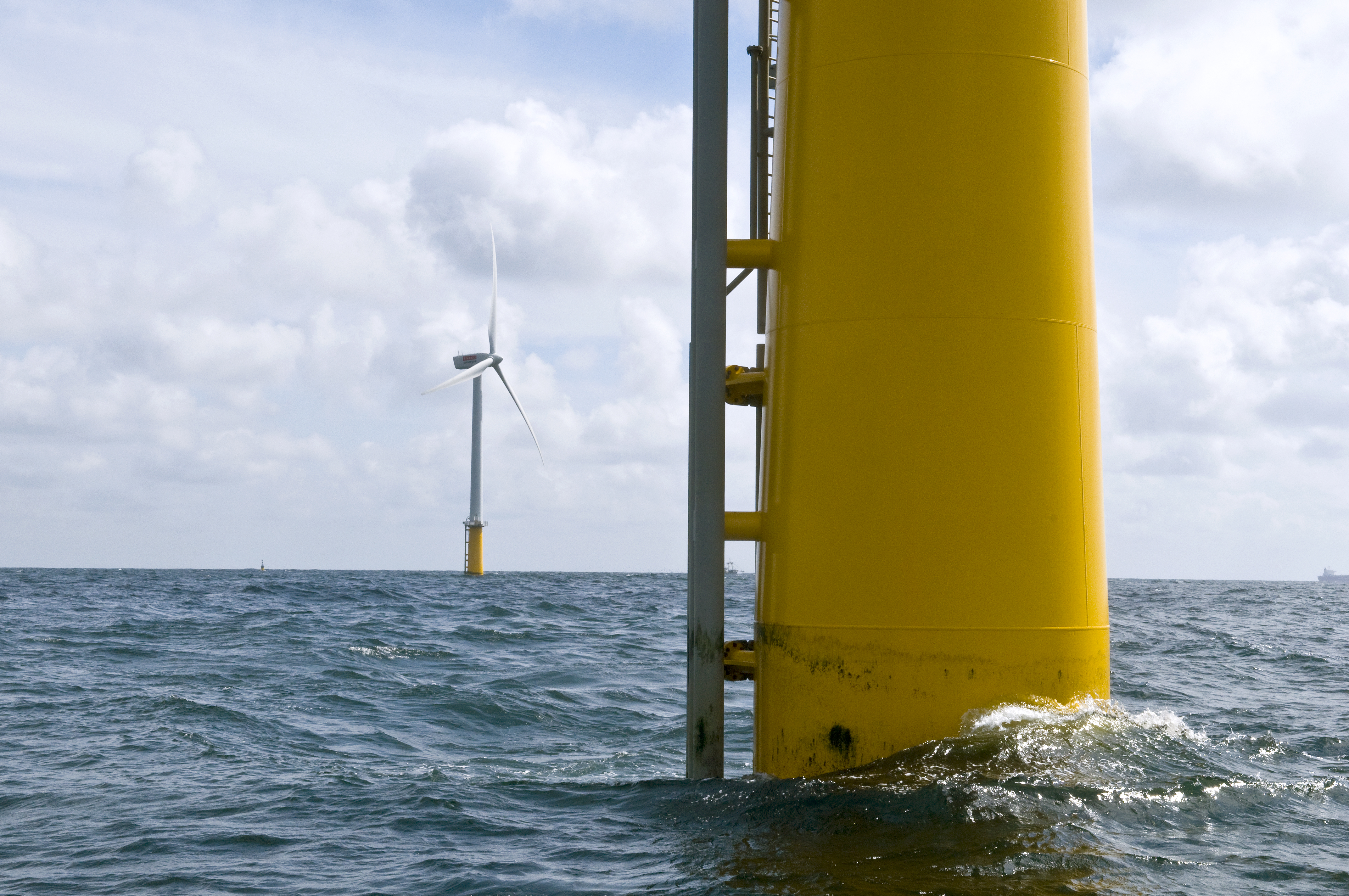 Prinses Amaliawindpark is located some 23 kilometres offshore from IJmuiden, The Netherlands. The windpark has the capacity to provide electricity for 125.000 households.